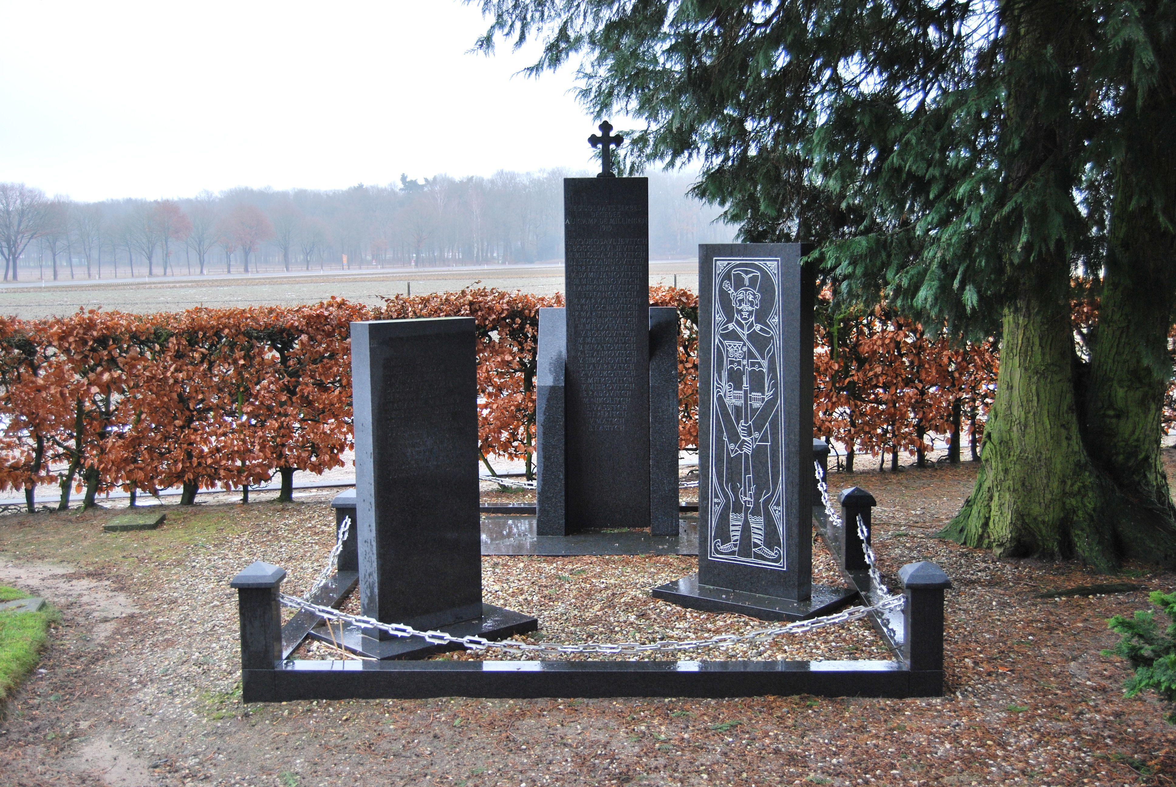 Monument in the town of Garderen to Serbian soldiers who died in the Netherlands from the Spanish flu at the end of the First World War.